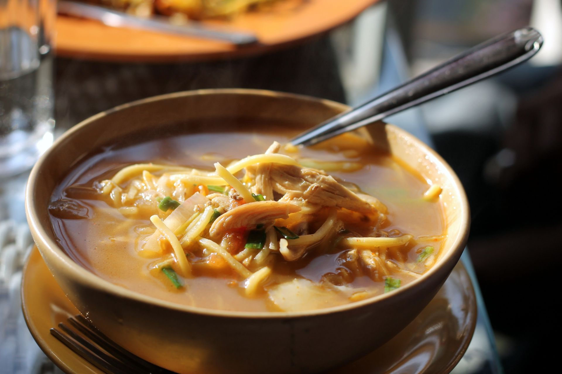 Thukpa is a type of noodle soup that originated in Tibet, but has become a part of Indian cuisine. It is a popular dish in the state of Sikkim, which is where the picture is taken.